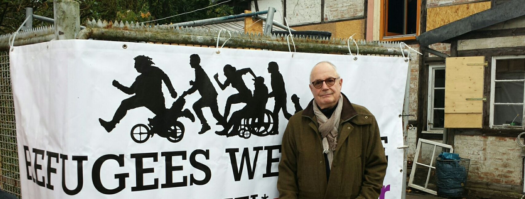 Michael Bouteiller (1943 in Offenburg), former mayor of Lübeck